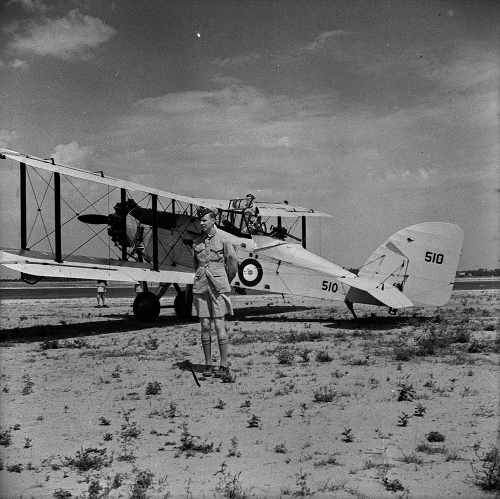 Sergeant Pilot Frank Pearce with Westland 'Wapiti' IIA aircraft 510 of No. 3 Squadron, R.C.A.F. , at Ottawa Air Station